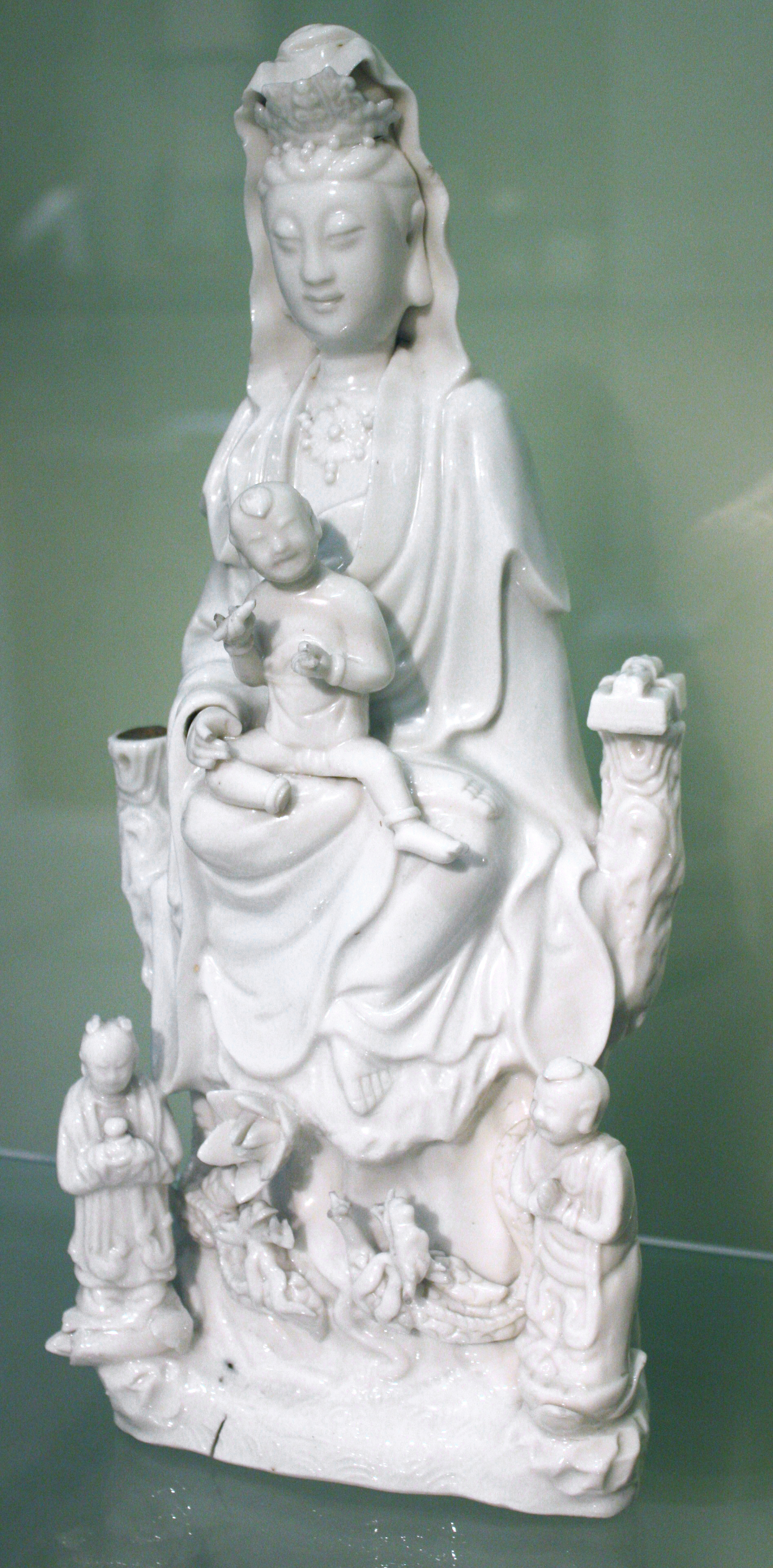 The Bodhisattva Guanyin In her role as the 'bringer of sons' with small boys and sea dragons Moulded white porcelain Dehua kilns About 1620-1720 Museum no. 19-1886 Wikipedia Loves Art at the Victoria and Albert Museum This photo of item # 19-1886 at the Victoria and Albert Museum was contributed under the team name "va_va_val" as part of the Wikipedia Loves Art project in February 2009. Victoria and Albert Museum The original photograph on Flickr was taken by Val_McG—please add a comment to the original Flickr page whenever a use has been made on Wikipedia or another project. Project galleries on Flickr: this institution, this team